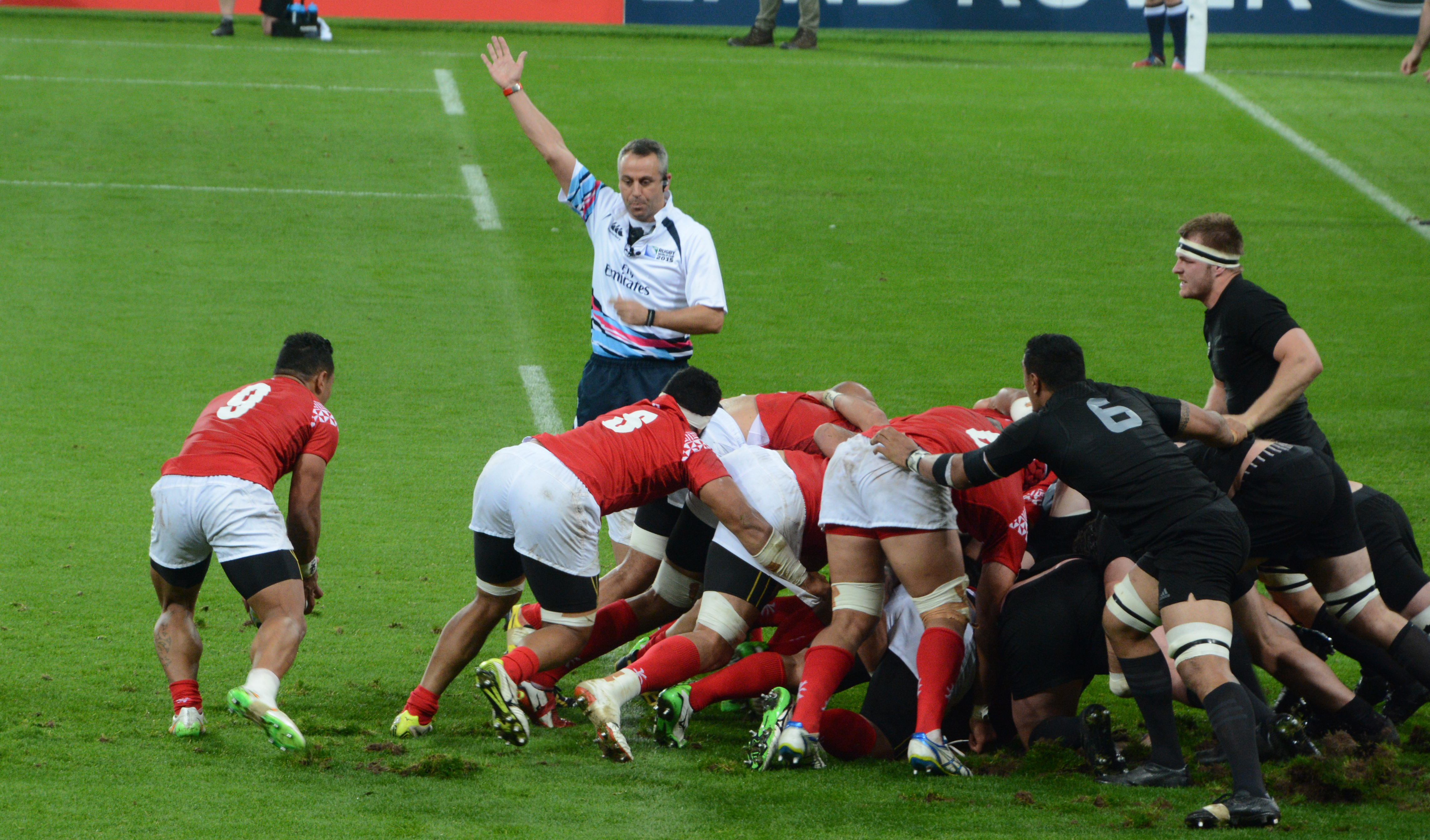 2015 Rugby World Cup match New Zealand vs Tonga at St. James’ Park, Newcastle upon Tyne.